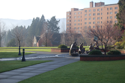 Mehling Hall at the University of Portland, Oregon. Author: Ole J. Forsberg